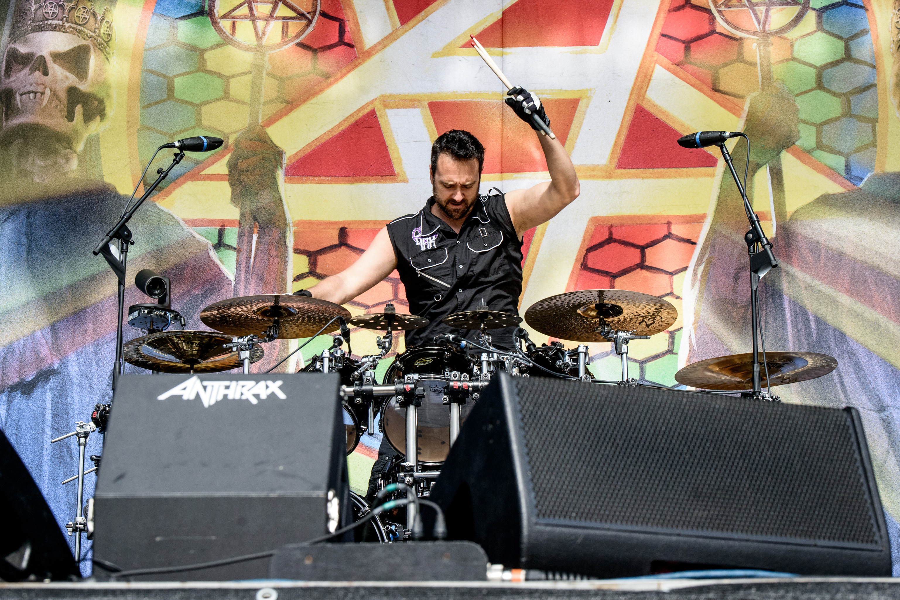 Anthrax Live @ Rockavaria 2016